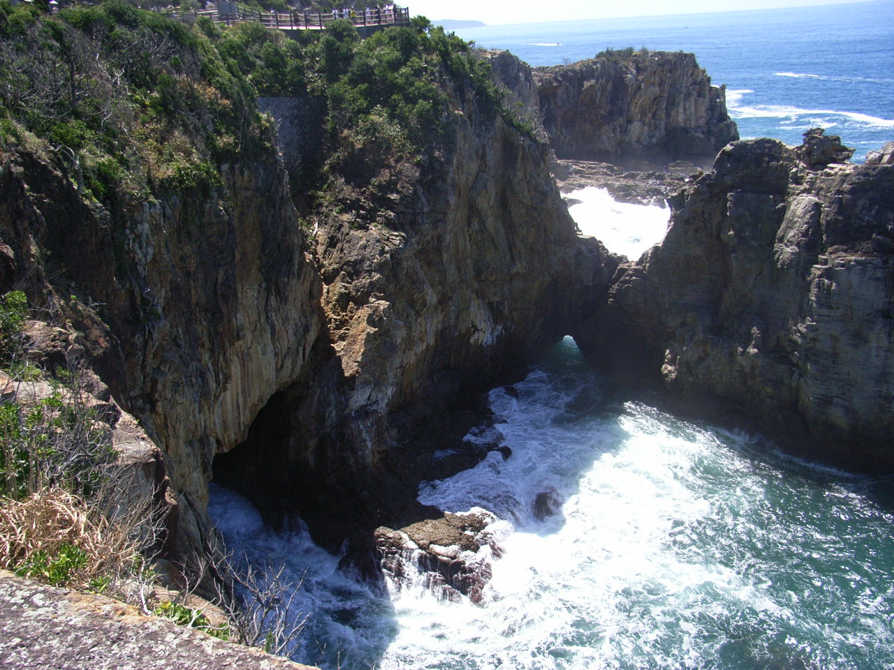 Sandanbeki Cave in Shirahama, Wakayama prefecture, Japan